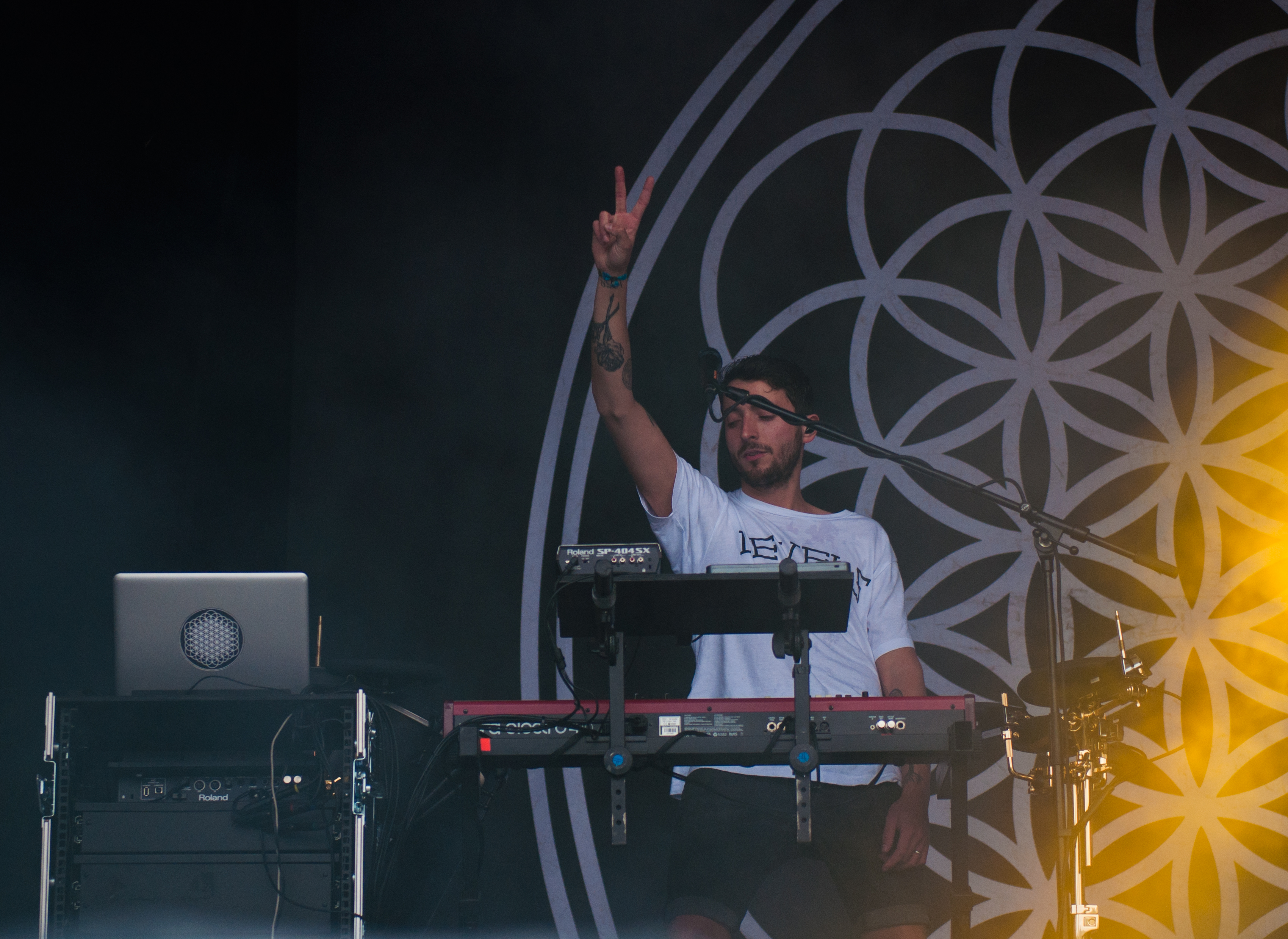 Bring Me the Horizon at Vainstream Rockfest 2014